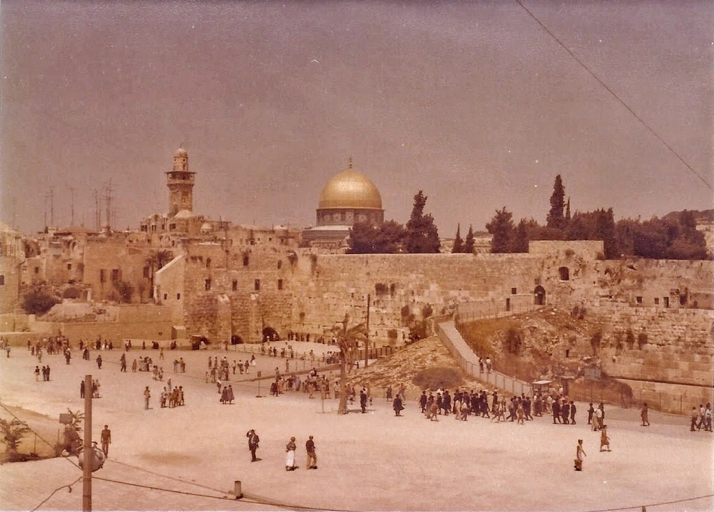 jerusalem, Geography of Israel